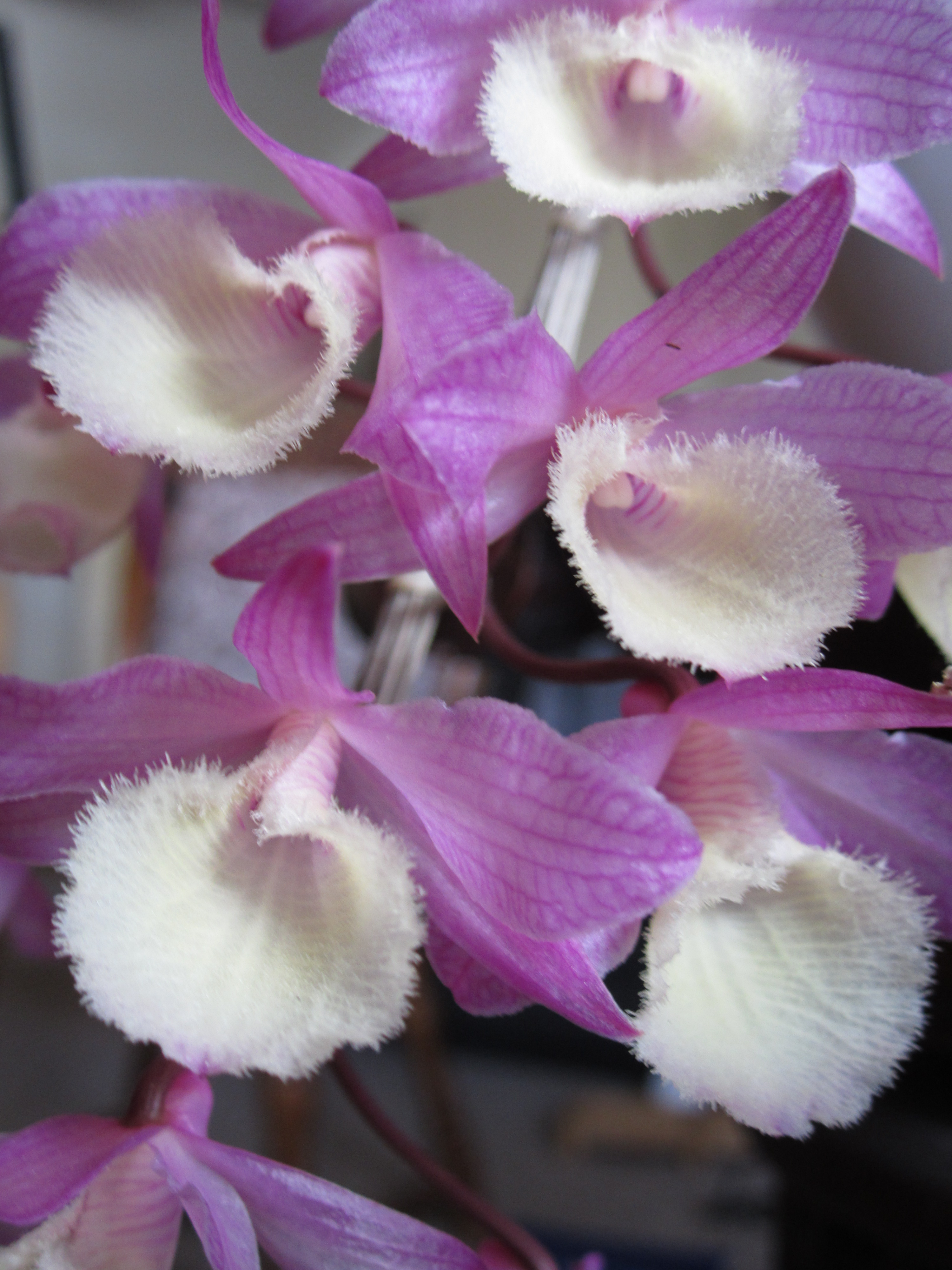 Dendrobium Aphyllum